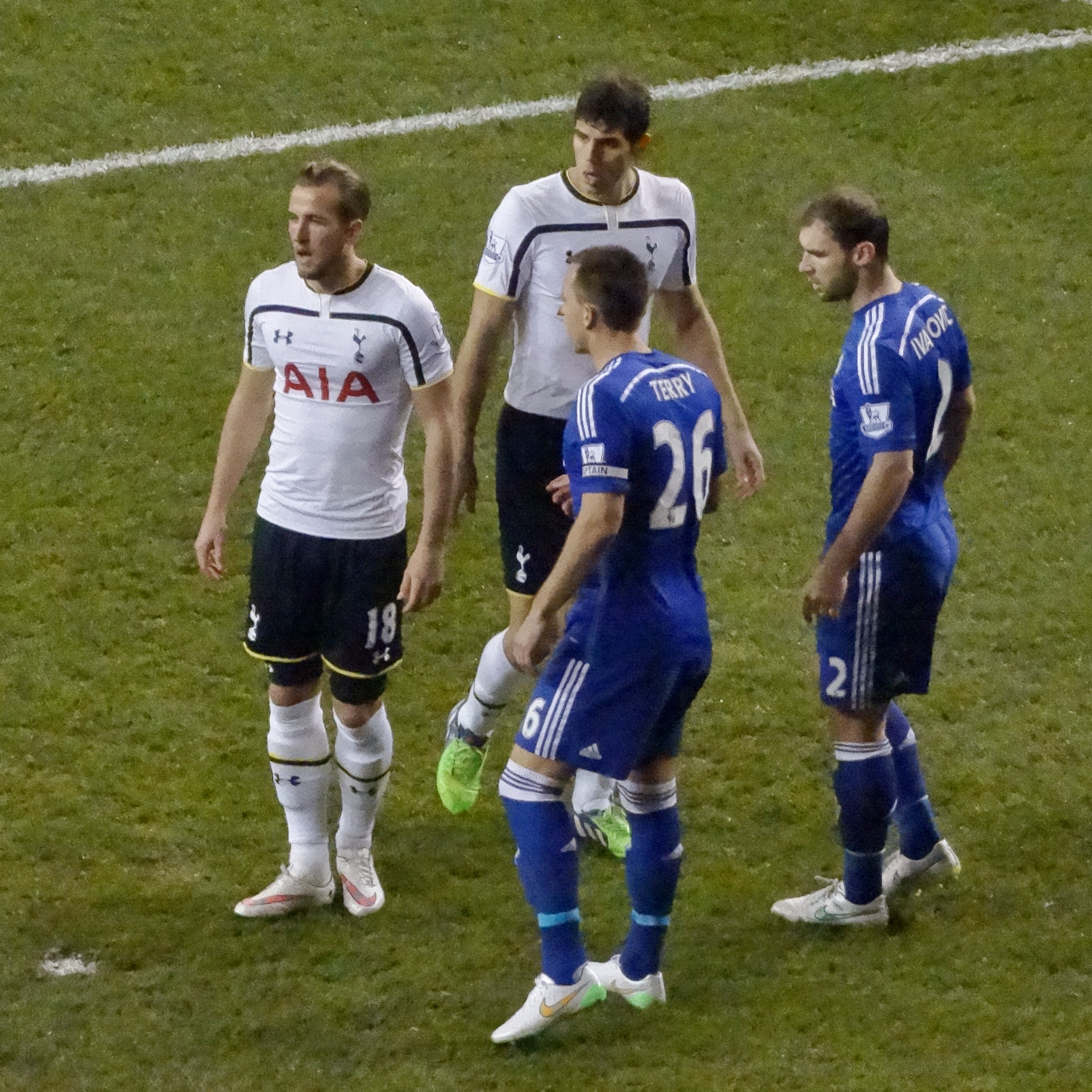 Spurs 5 Chelsea 3 Tottenham 5 Chelsea 3 at White Hart Lane